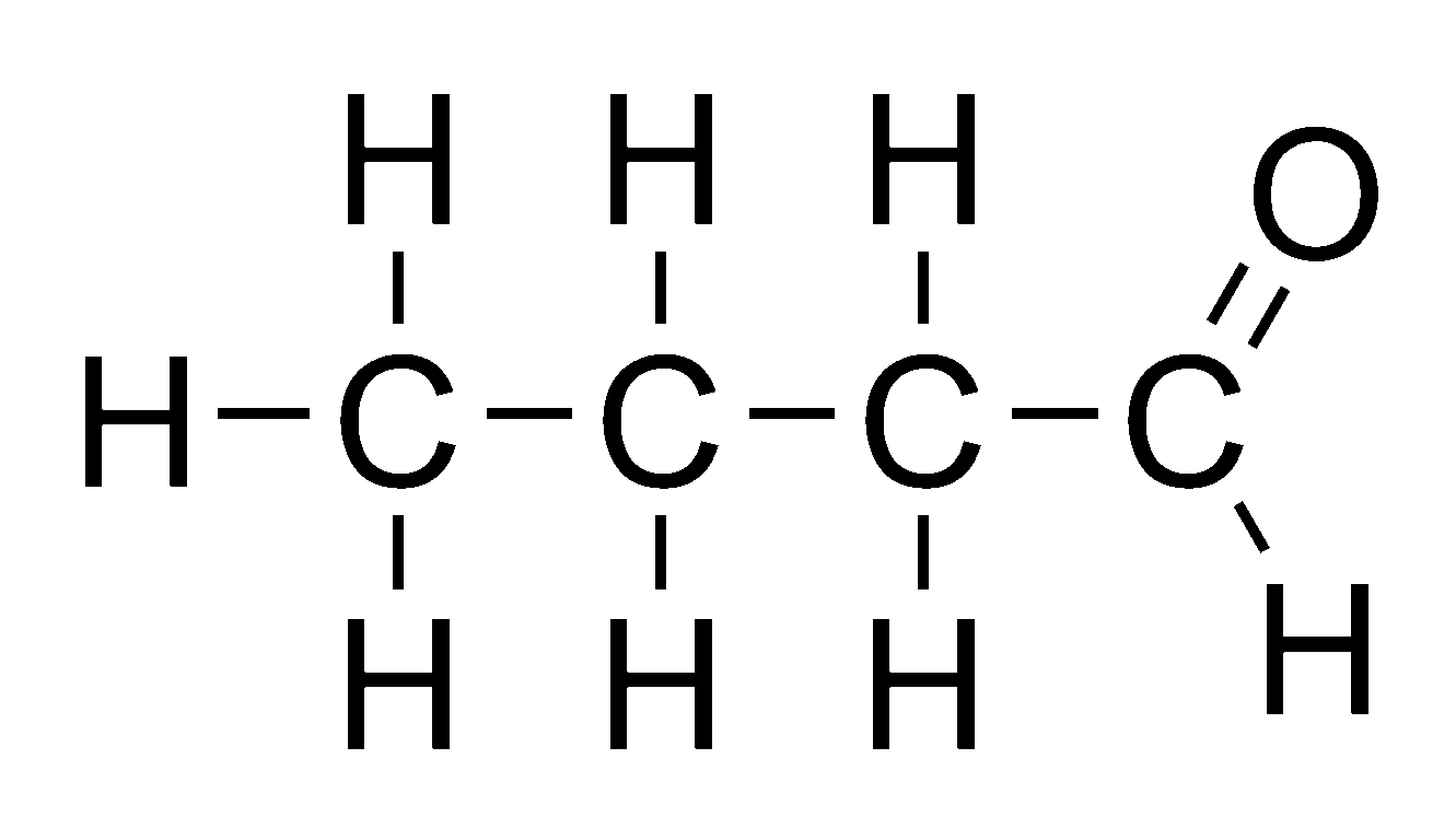 Flat connectivity structure of butyraldehyde